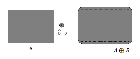 graphical depiction of a binary dilatation